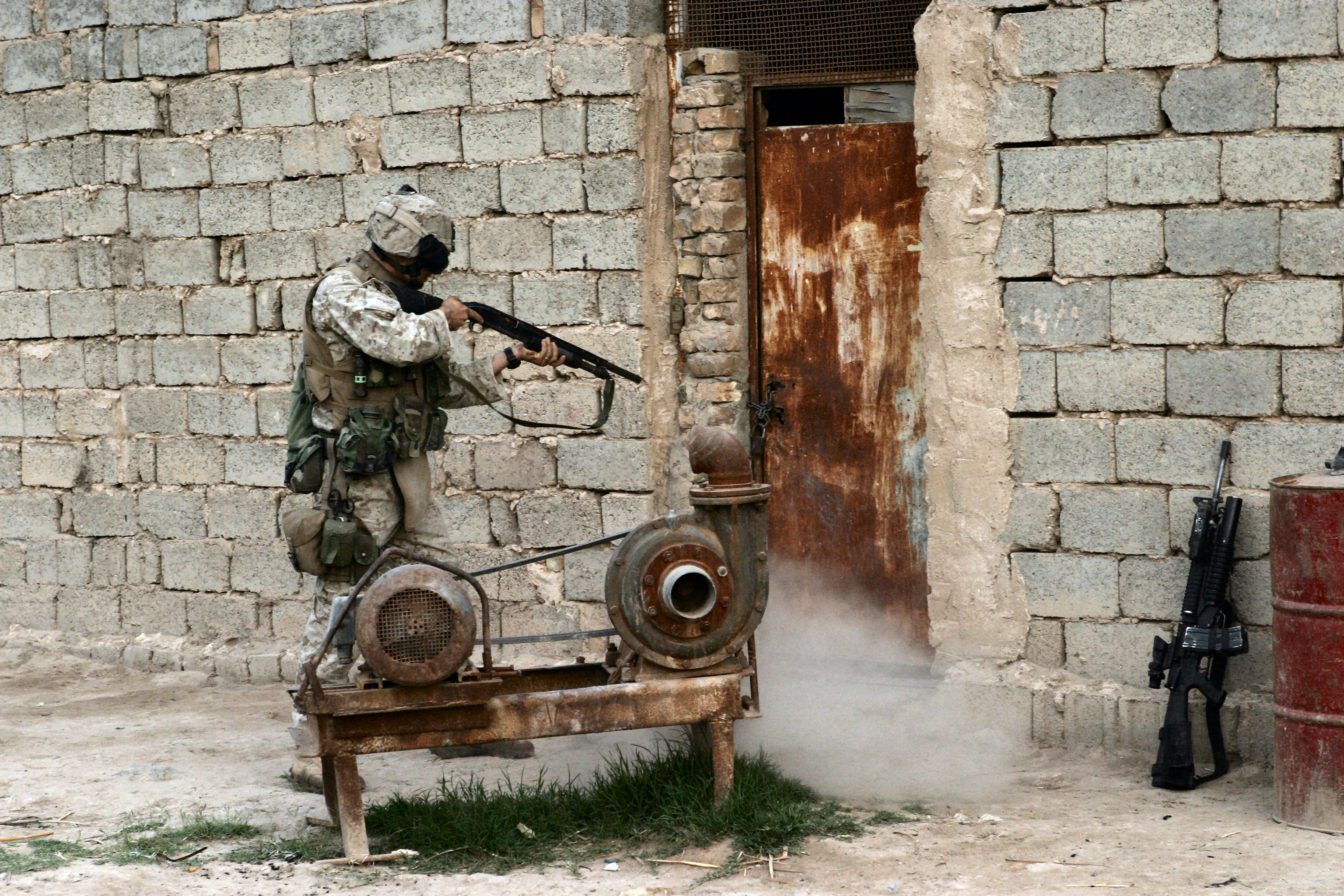 From KHARMA, Iraq (April 30, 2005) – Sgt. Brian Criss, with 3rd Battalion, Eighth Marine Regiment, India Company, 4th Platoon, fires his shotgun onto a door lock for a room to allow his fellow Marines to enter and secure the room during a cordon and knock within the neighborhood of Kharma, Iraq, April 19, 2005. U.S. Marine Corps photo by Lance Cpl. Matthew Hutchison. Additional information: Shotgun appears to be a Mossberg 590. It looks like one round has already been fired, you can see the smearing from an apparent buckshot load on the lock and door. Also note the shotgun's breech is not yet closed. 4/23/08--Added an inset showing an enlarged view of the area around the lock, showing the muzzle, the broken lock, and the smearing of lead on the lock and door from the buckshot. The image was processed with a spatially adaptive brightness/contrast enhancing algorithm.